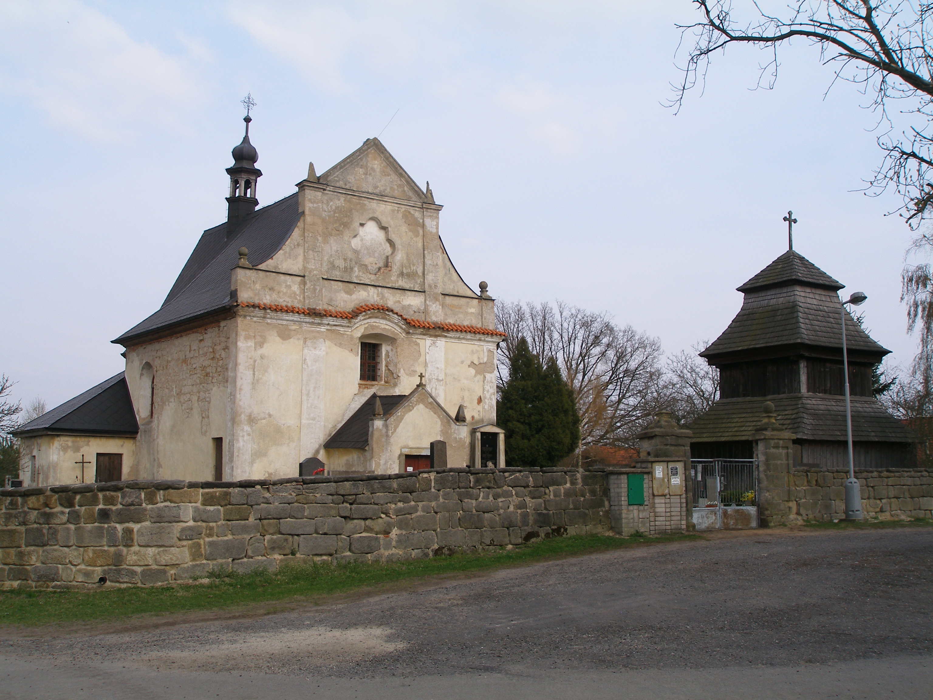 Holy Trinity church and wood bell tower in Všeborsko.